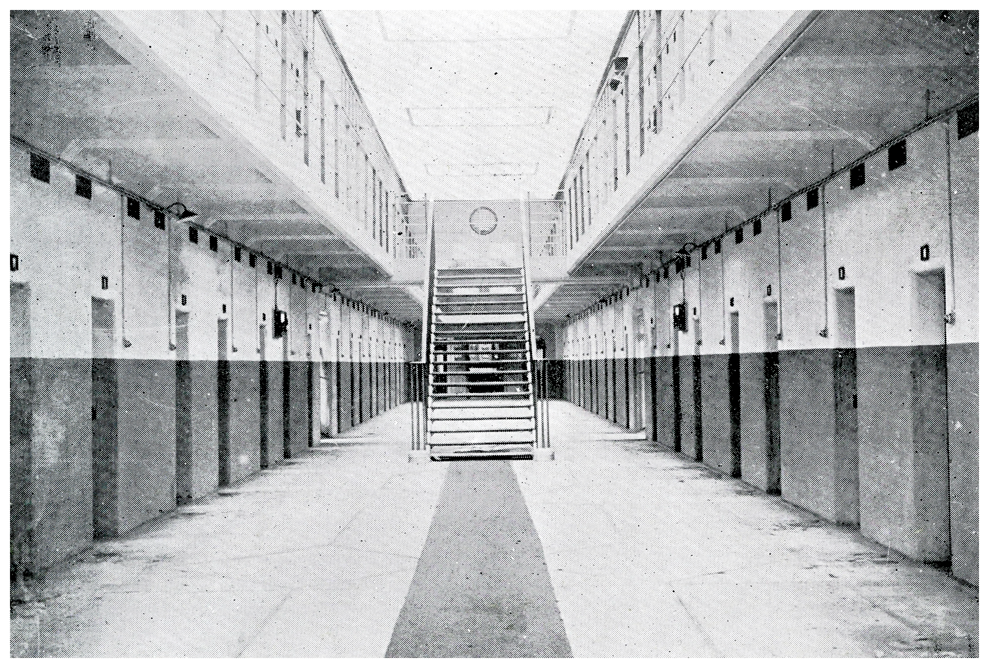 During the First World War between 1,500 to 2,000 objectors and defaulters were convicted, or came under state control, for their opposition to war. At least 64 of these were still at Waikeria Prison on 5 March 1919 - some of whom had gone on hunger strike in protest. This image of the interior of Waikeria Prison comes from a Government Publication called 'The Evolution of the Prison System', published in 1923. Archives Reference: ABGU W3777 Box 11/ 149 Material from Archives New Zealand